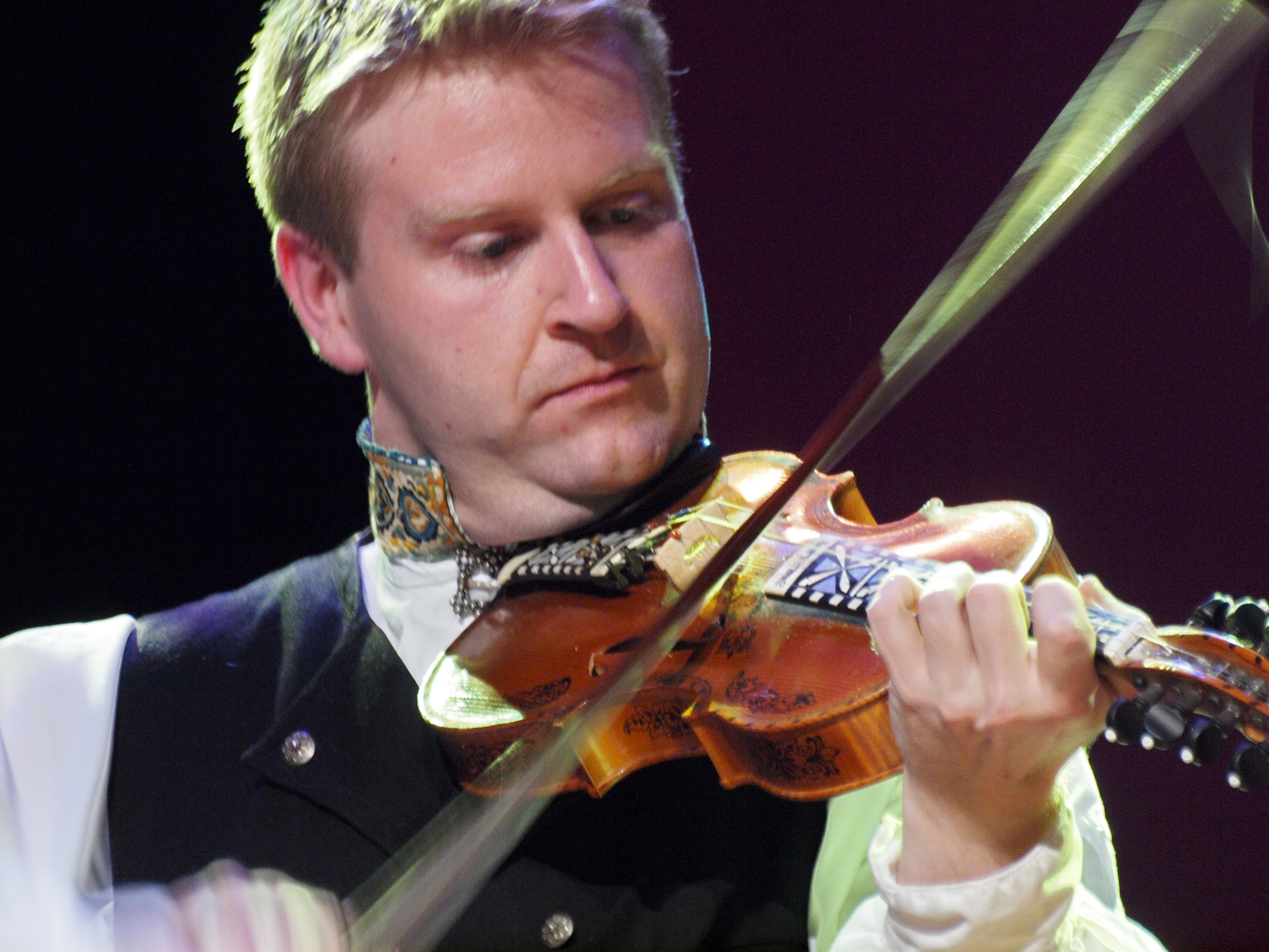 Per Anders Buen Garnås, one of the foremost norwegian hardangerfiddle players.